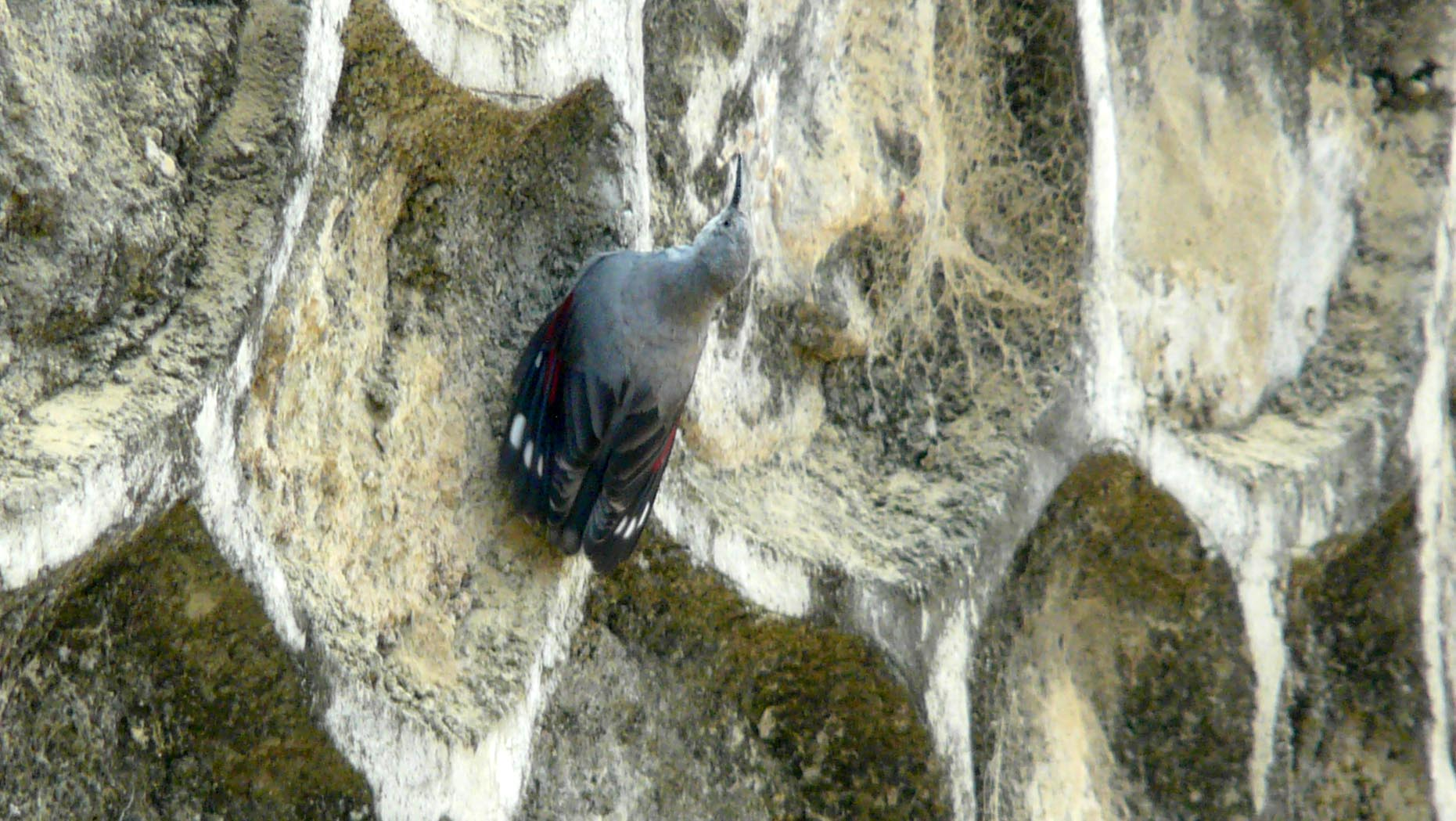 Wallcreeper Tichodroma muraria nepalensis, Bela, Bihar, India